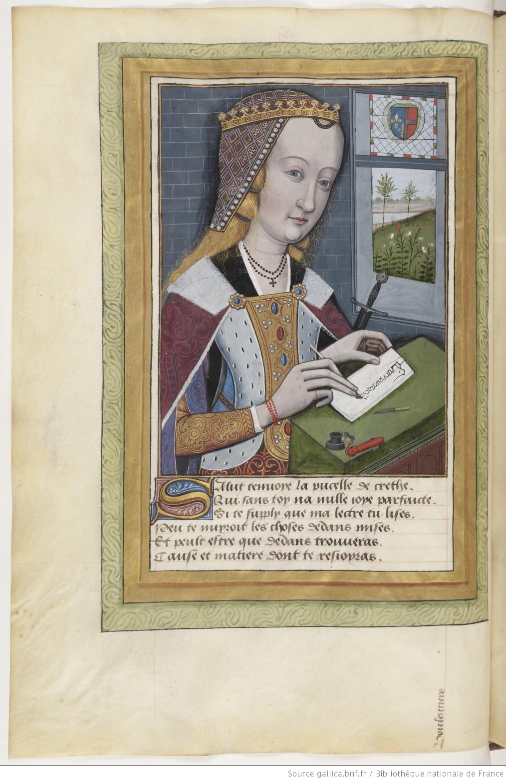 Plate from Ovide , Héroïdes ou Epîtres , translation by Octavien de Saint-Gelais. The Héroïdes (The Heroines) or Epîtres (Letters of Heroines), is a collection of fifteen epistolary poems composed by Ovid in Latin elegiac couplets and presented as though written by a selection of aggrieved heroines of Greek and Roman mythology in address to their heroic lovers who have in some way mistreated, neglected, or abandoned them.